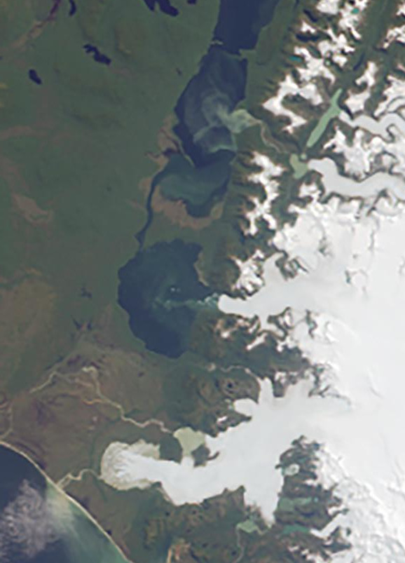 Río témpanos, laguna San Rafael y río San Tadeo